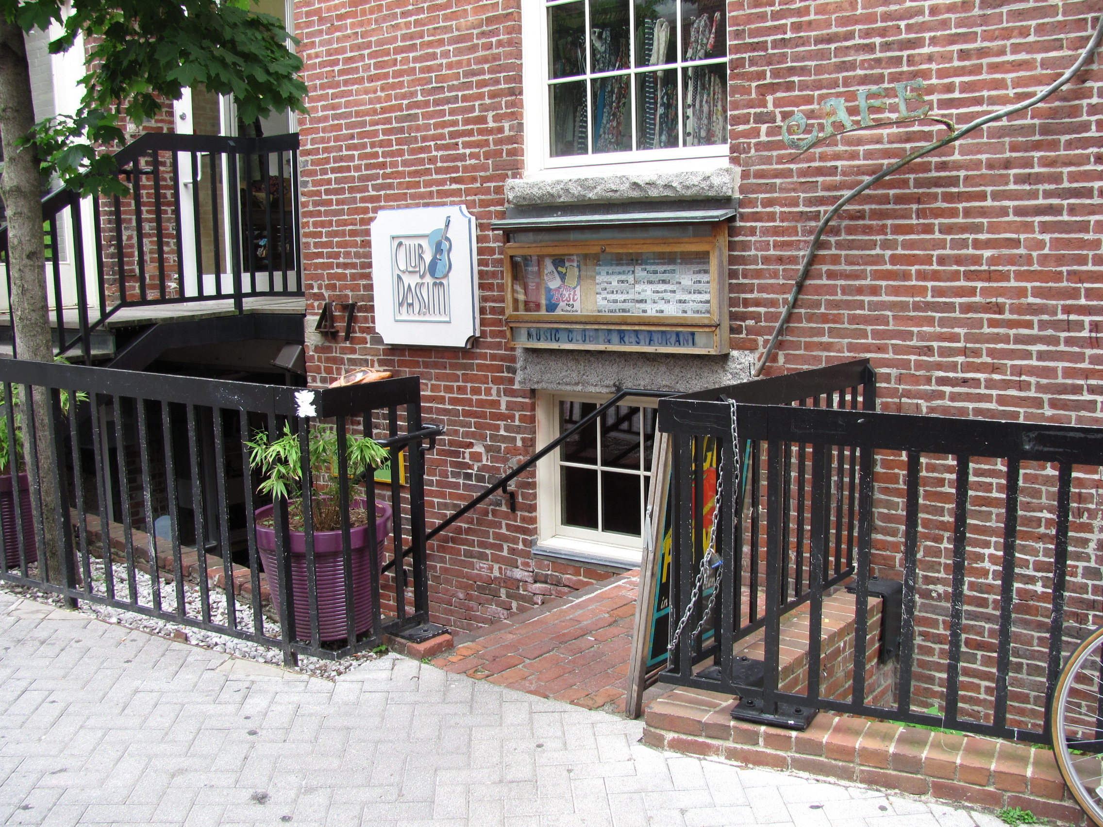 Club Passim, Harvard Square, Cambridge Massachusetts